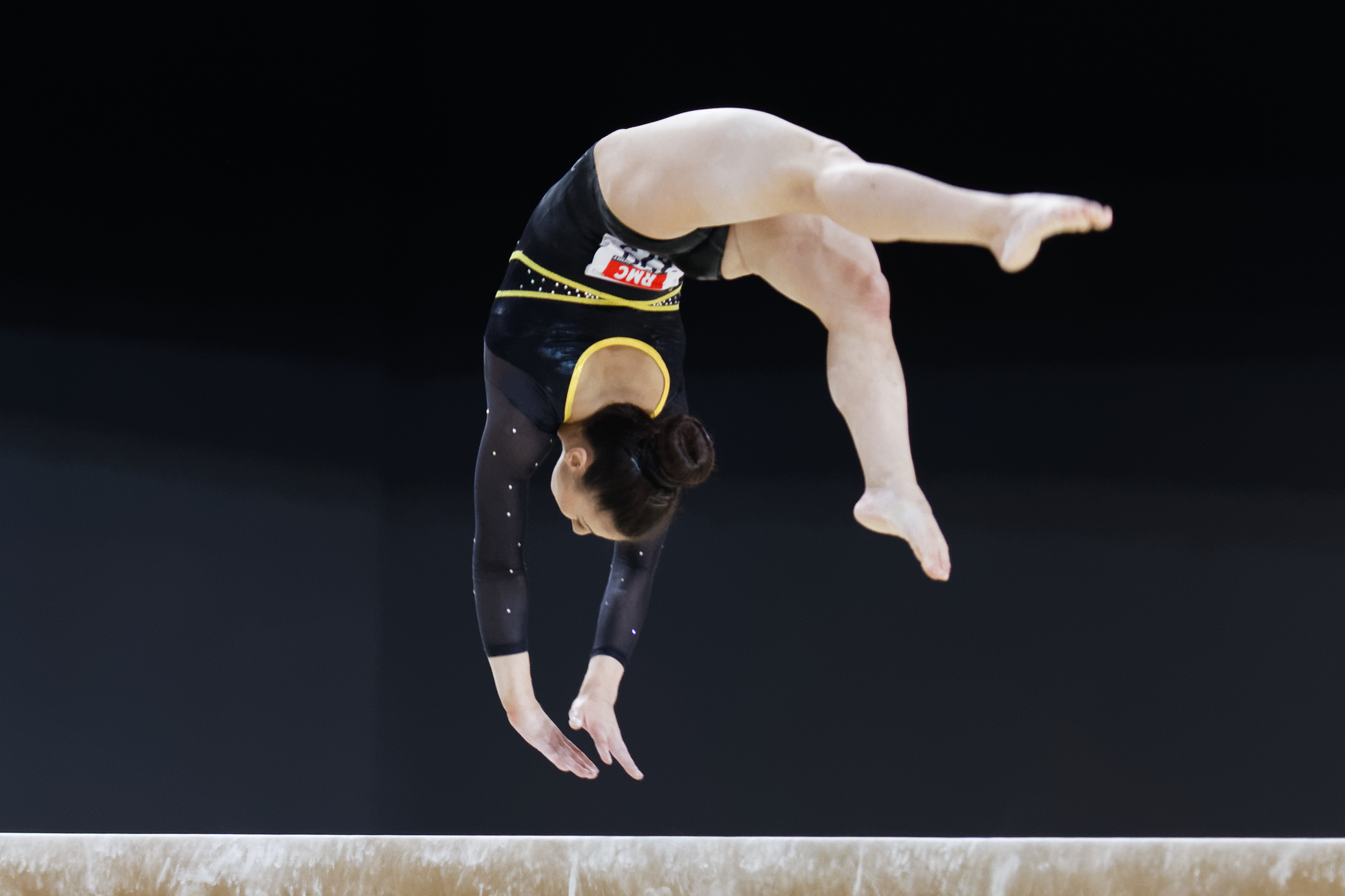 2015 European Artistic Gymnastics Championships. Bamance beam.